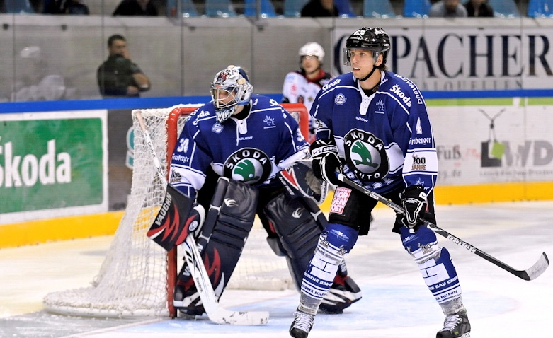 #4 Nico Pyka with Kellen Briggs, Dresdner Eislöwen